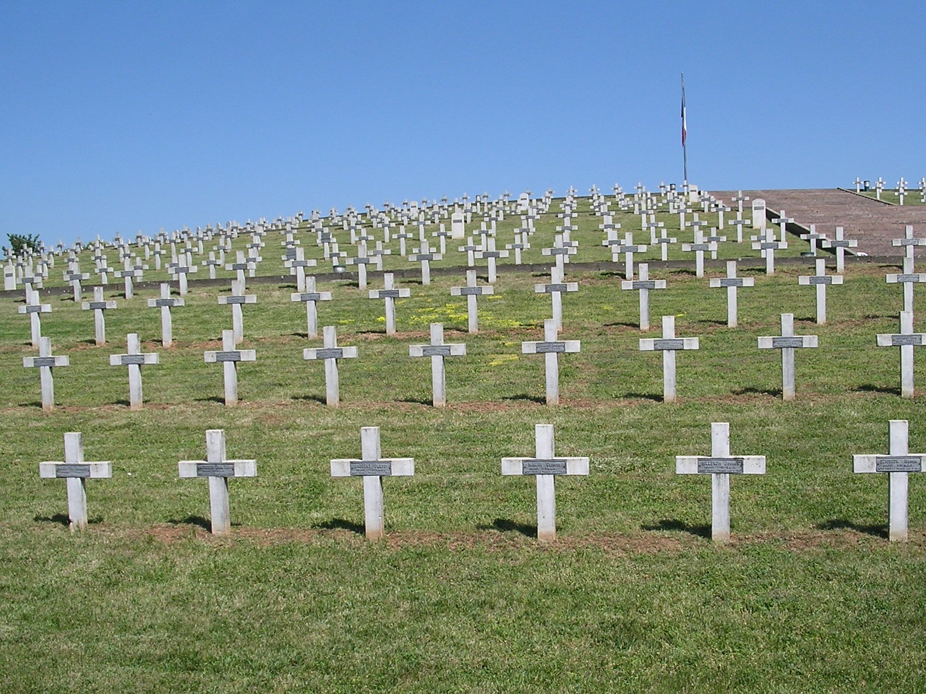 Nécropole Nationale at Sigolsheim